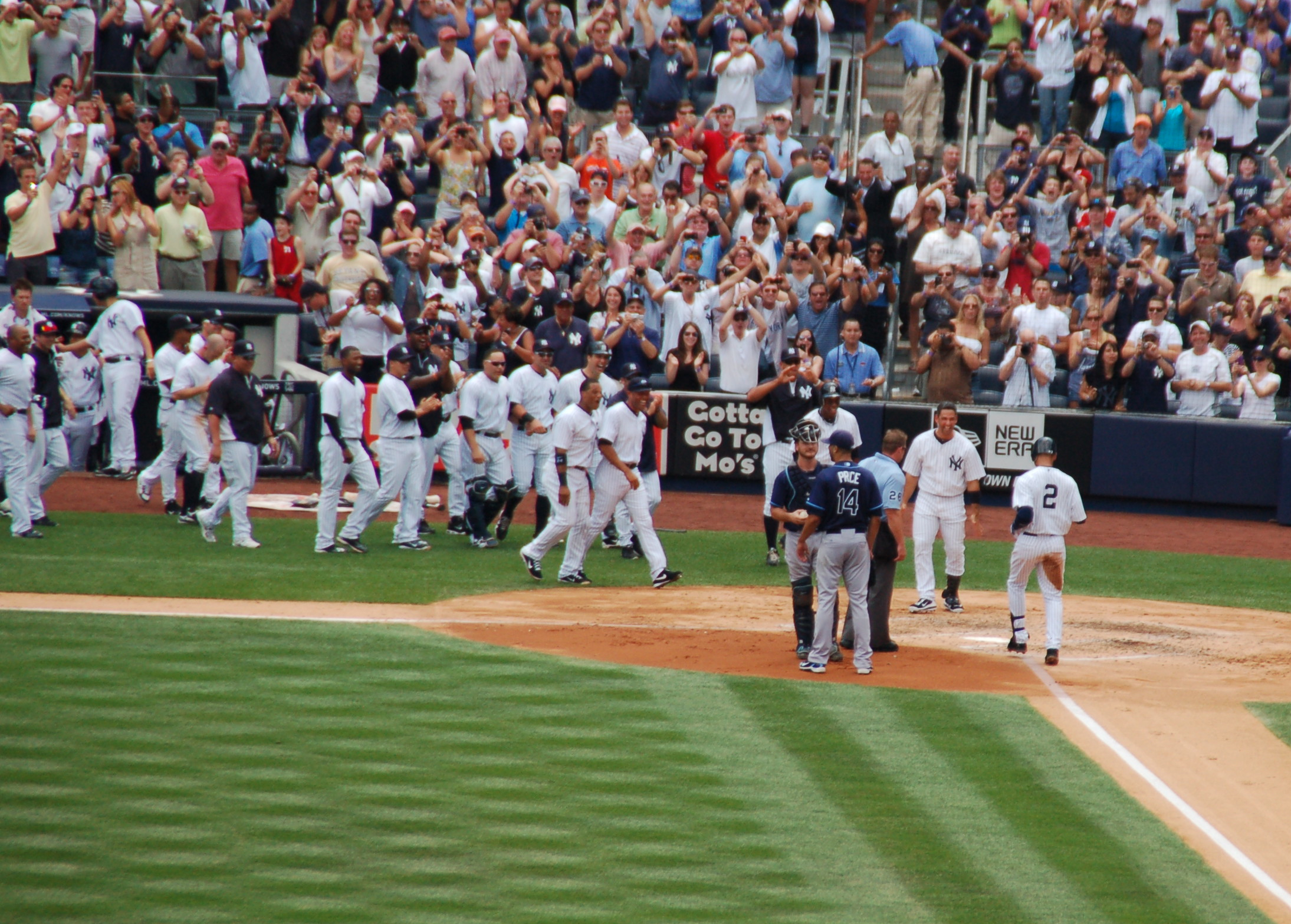 Derek Jeter's teammates watch him cross the plate after recording his 3000th hit. Photo courtesy of LawrenceFung, via Flickr.